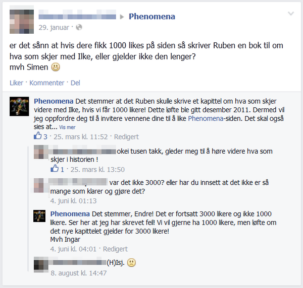 The Norwegian fantasy series Phenomena needs 3k likes to continue